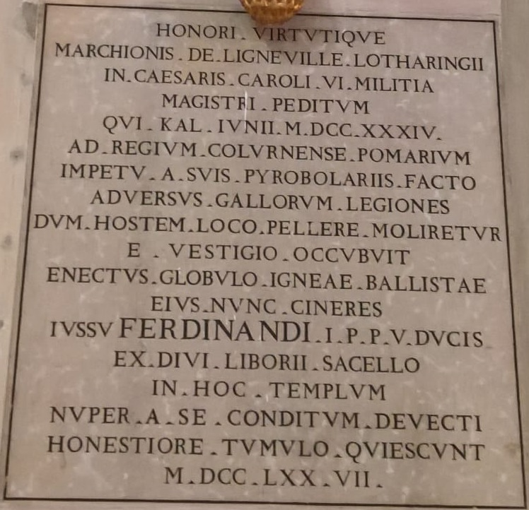 Memorial burial plaque dedicated to Léopold-Marc de Ligniville, Ducal Chapel of San Liborio in Colorno. - For the honor and virtue of the Marquis Lorraine de Ligneville, commander of the infantry in the army of Emperor Charles VI, who at the calends of June 1734, in Colorno near the royal orchard following an attack of his artillery against the French army, while on the spot prepares to hunt the enemy, immediately died, hit by a catapult fireball. Now its ashes, under the command of the Duke I.P.P.V. Ferdinand, transported from the Chapel of San Liborio to this Temple, which he had recently built, rest in a more dignified tomb. 1777